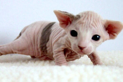 2 week-old Female Sphynx.